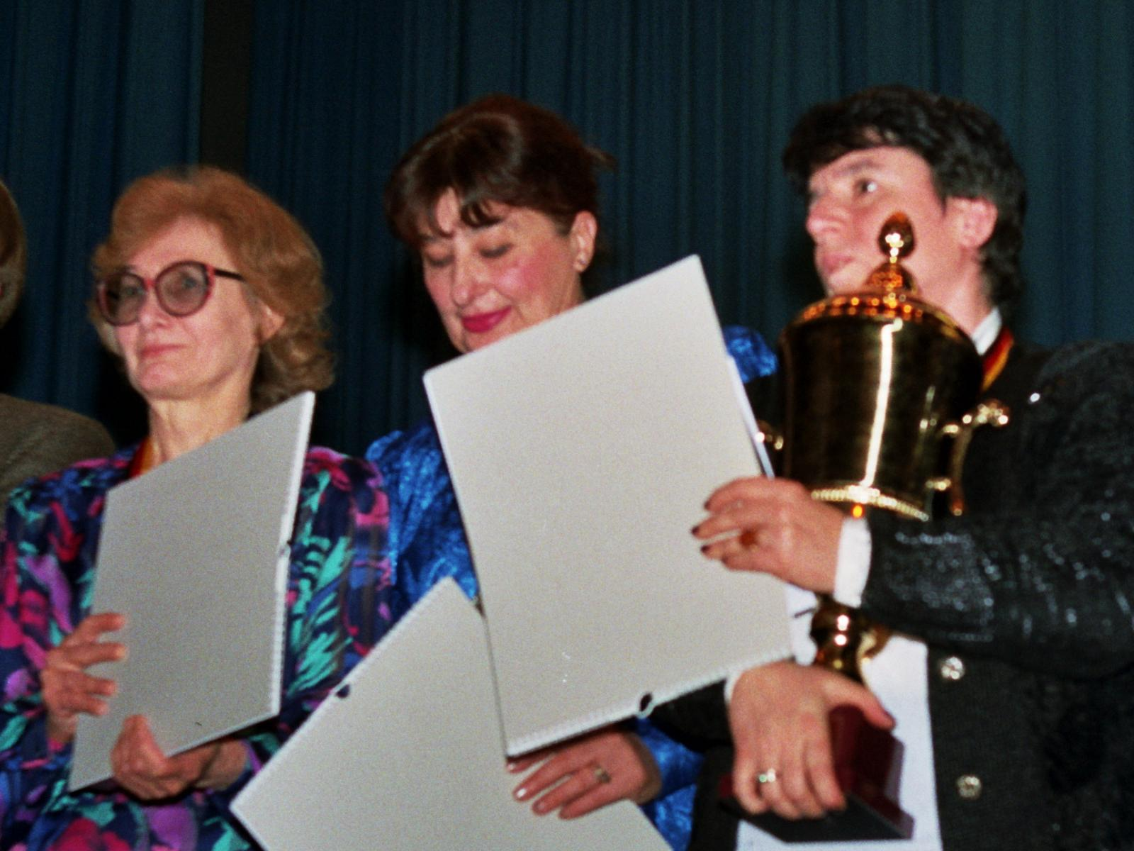 The first ladies: Kozlovskaya, Khmiadashvili and Gaprindashvili, Senior Chess World Championship 1995 at Bad Liebenzell, Photographer Gerhard Hund.